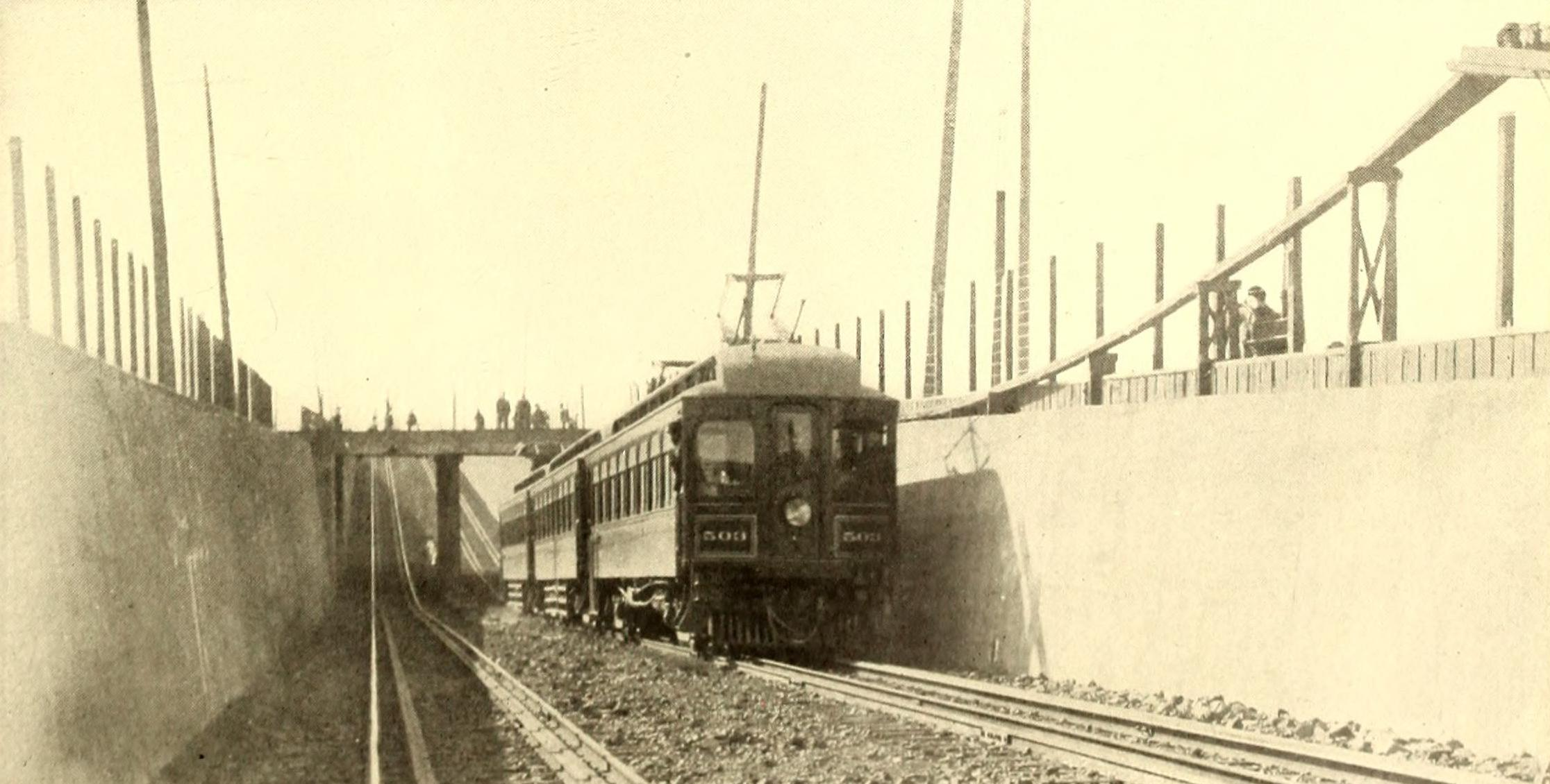 Title: Electric railway journal Year: 1908 (1900s) Authors: Subjects: Electric railroads Publisher: (New York) McGraw Hill Pub. Co Text Appearing Before Image: Plate XXXVII Text Appearing After Image: Oakland Electric Railways—Subway Under Southern Pacific Railway Plate XXXVIII